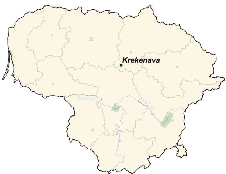 Krekenava on the map of Lithuania